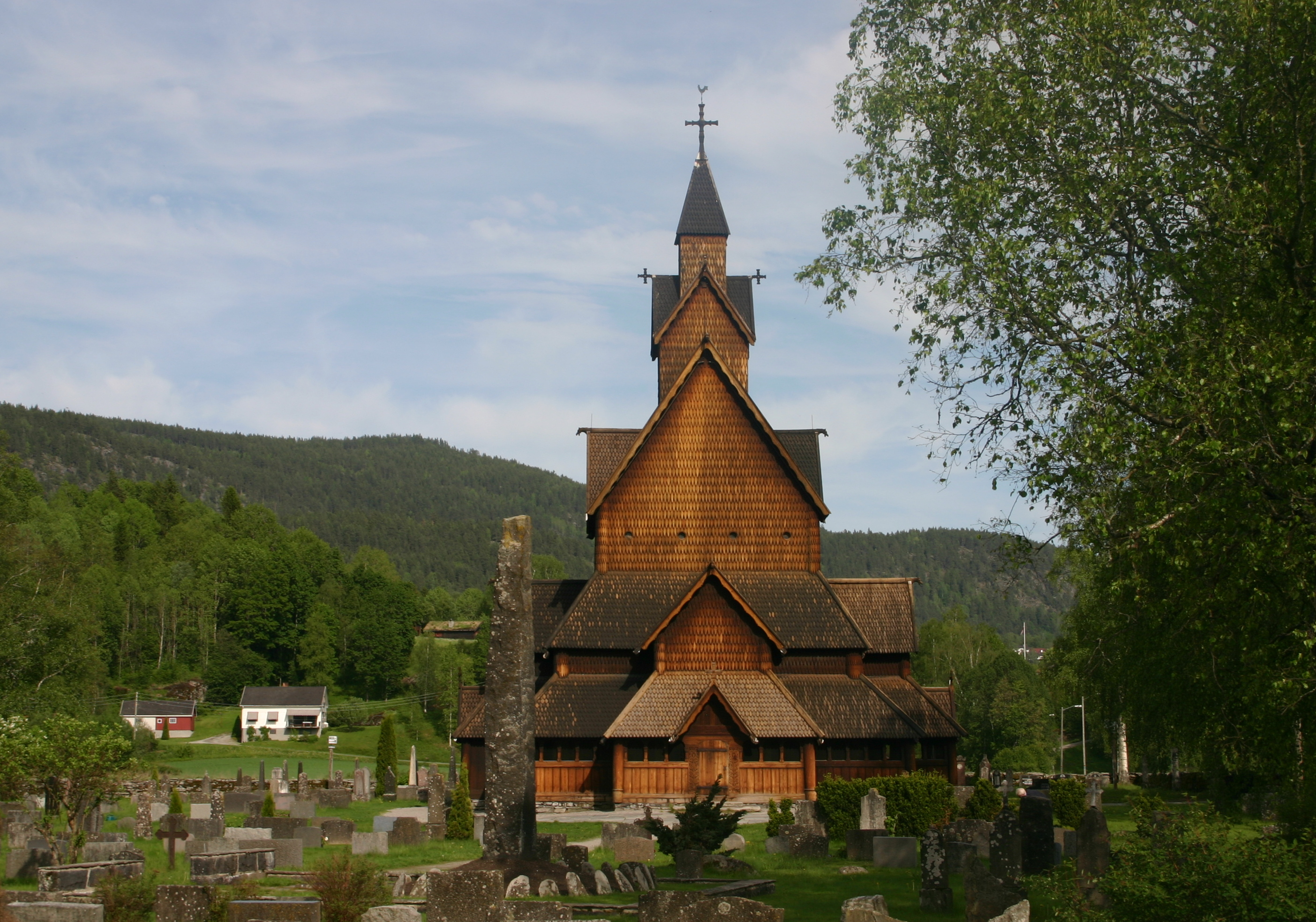 Stave church in Heddal, Norway